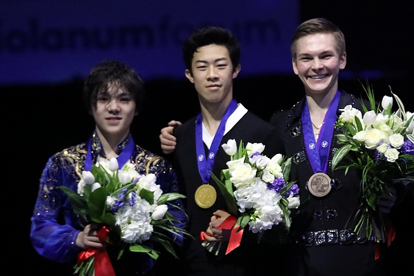 Photos – World Championships 2018 – Men (Medalists)